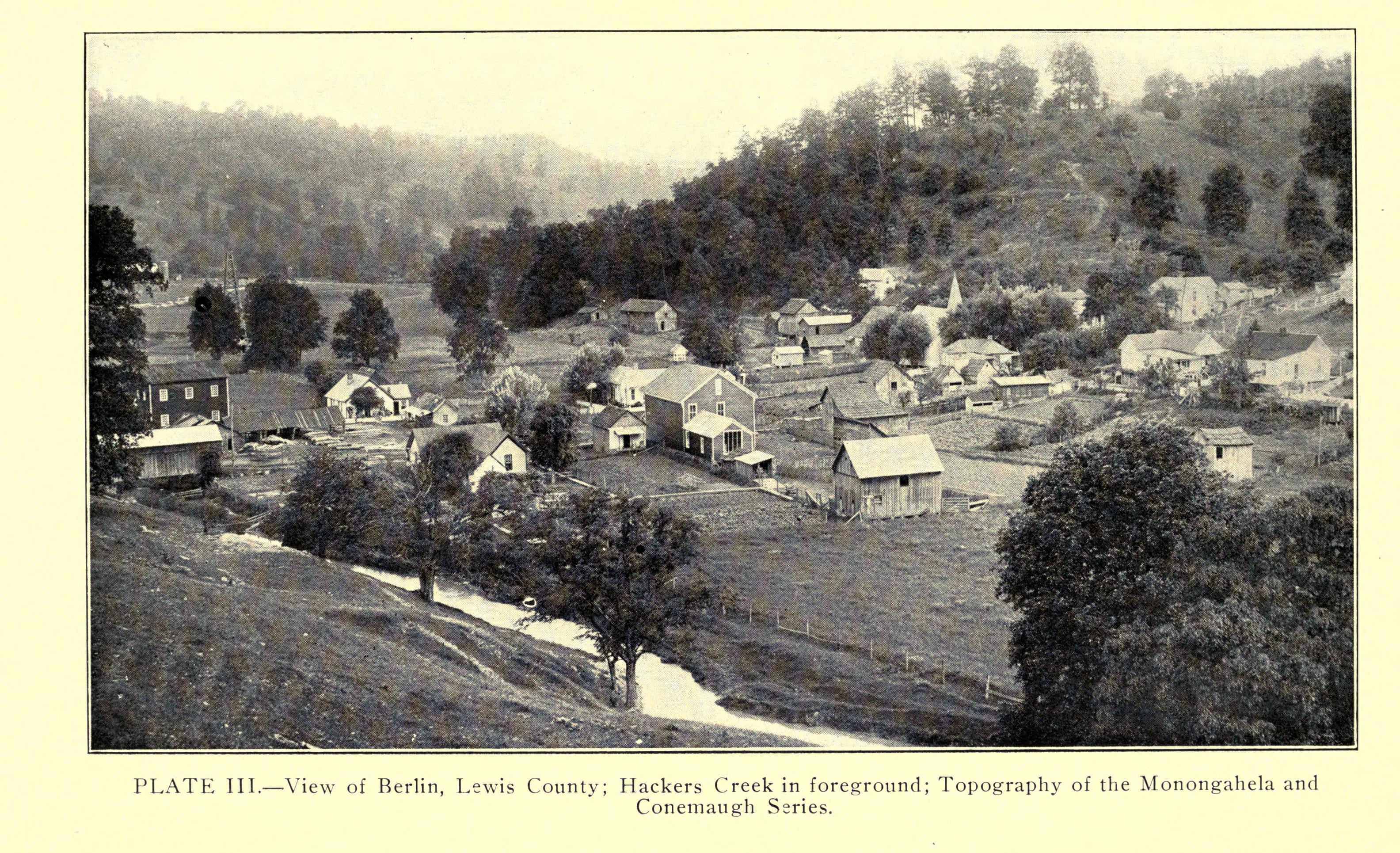 County reports and maps] Lewis and Gilmer Counties, by David B. Reger, assistant geologist, I. C. White, state geologist.